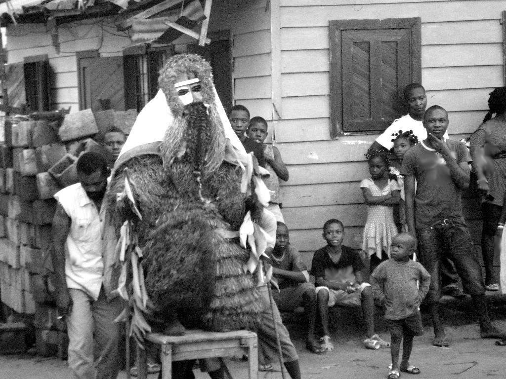 Bata, Equatorial Guinea 2011